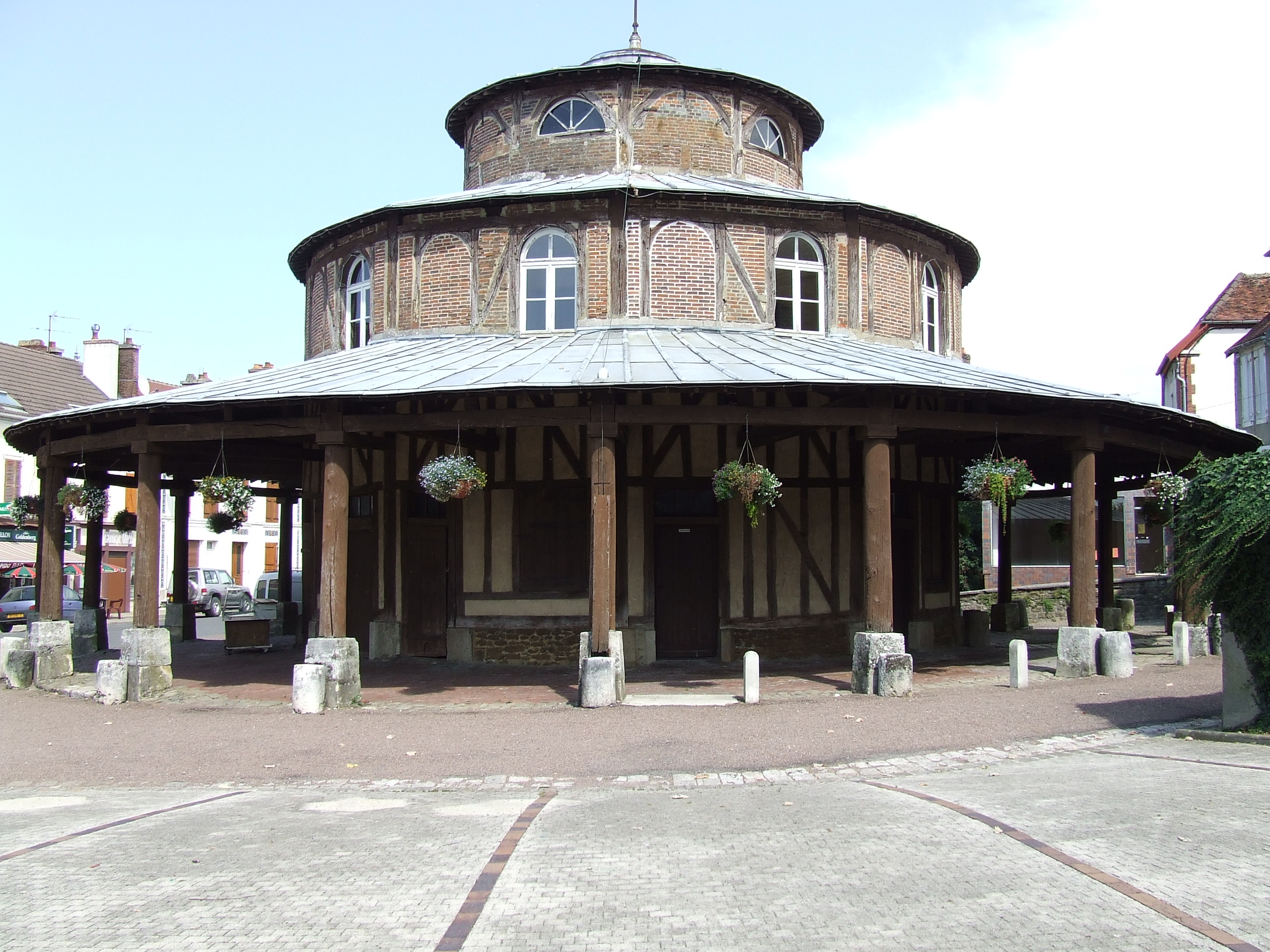 Halle unique circular in Europe with its three circular roofs.